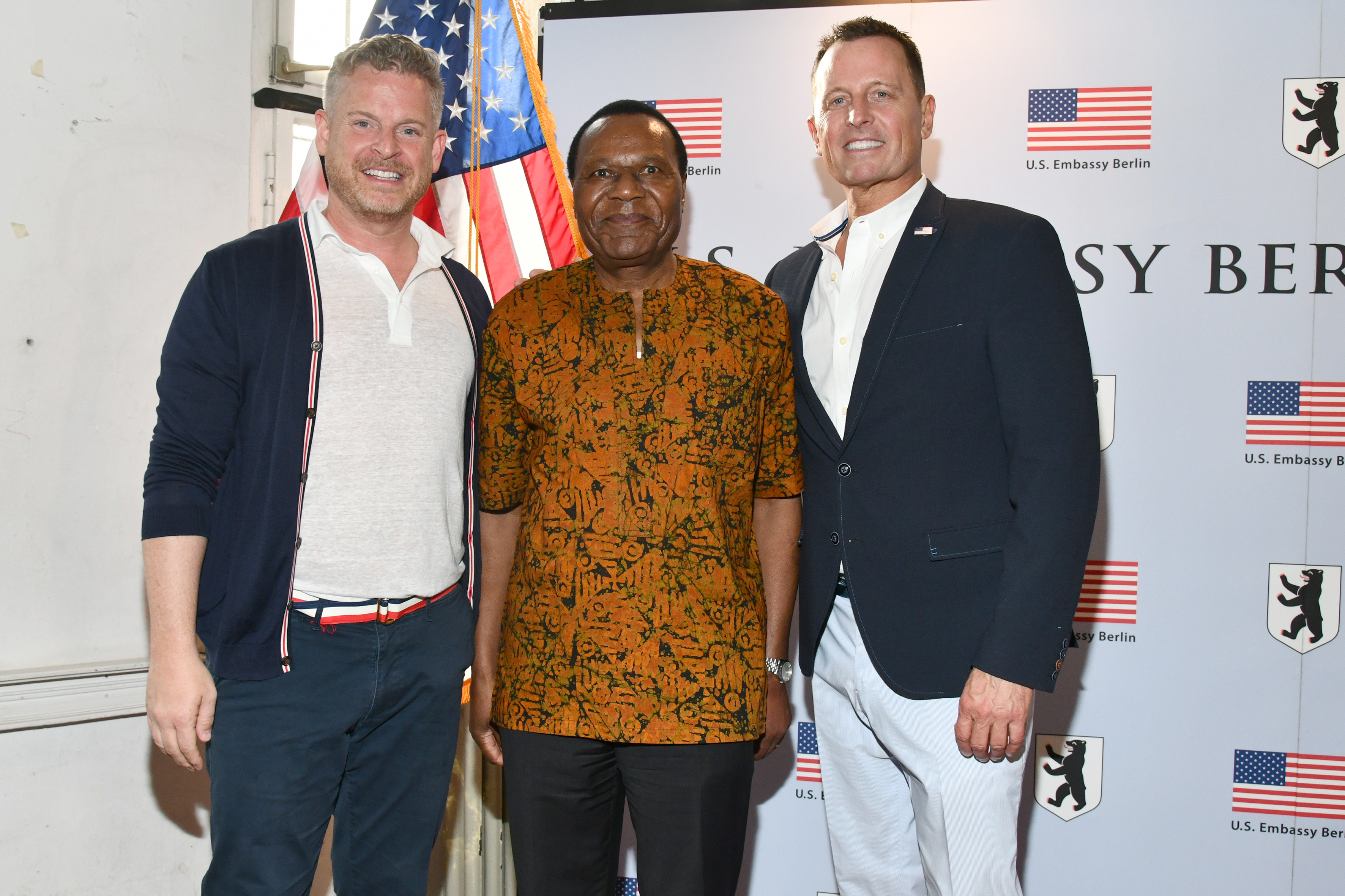 Matt Lashey, Marcel Robert Tibaleka, and Richard Grenell, 4th of July 2019 in Berlin